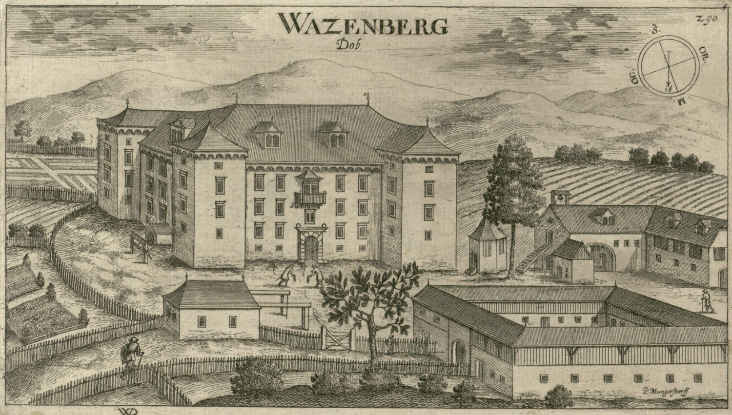 Wazenberg Mansion that stood in Dob pri Mirni from the 14th century until World War II. The engraving by J. W. von Valvasor.